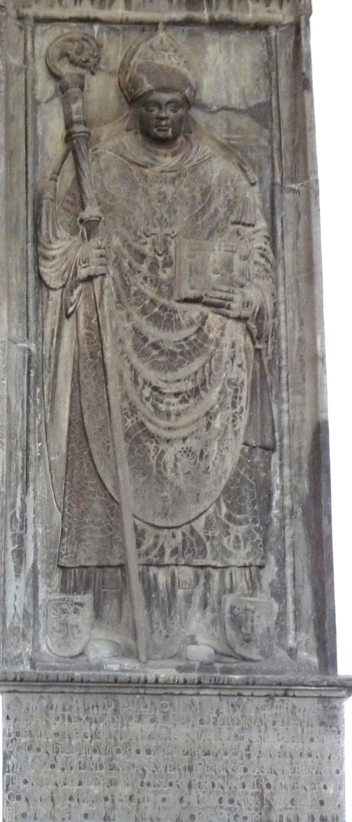 Urban Textor, 4. ljubljanski škof, Gornji Grad